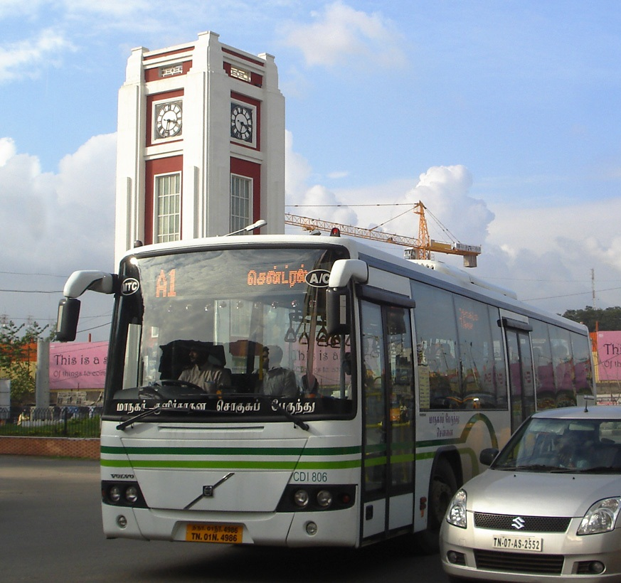 A Chennai MTC Volvo bus in front of the Royapettah clock tower, Chennai, India.